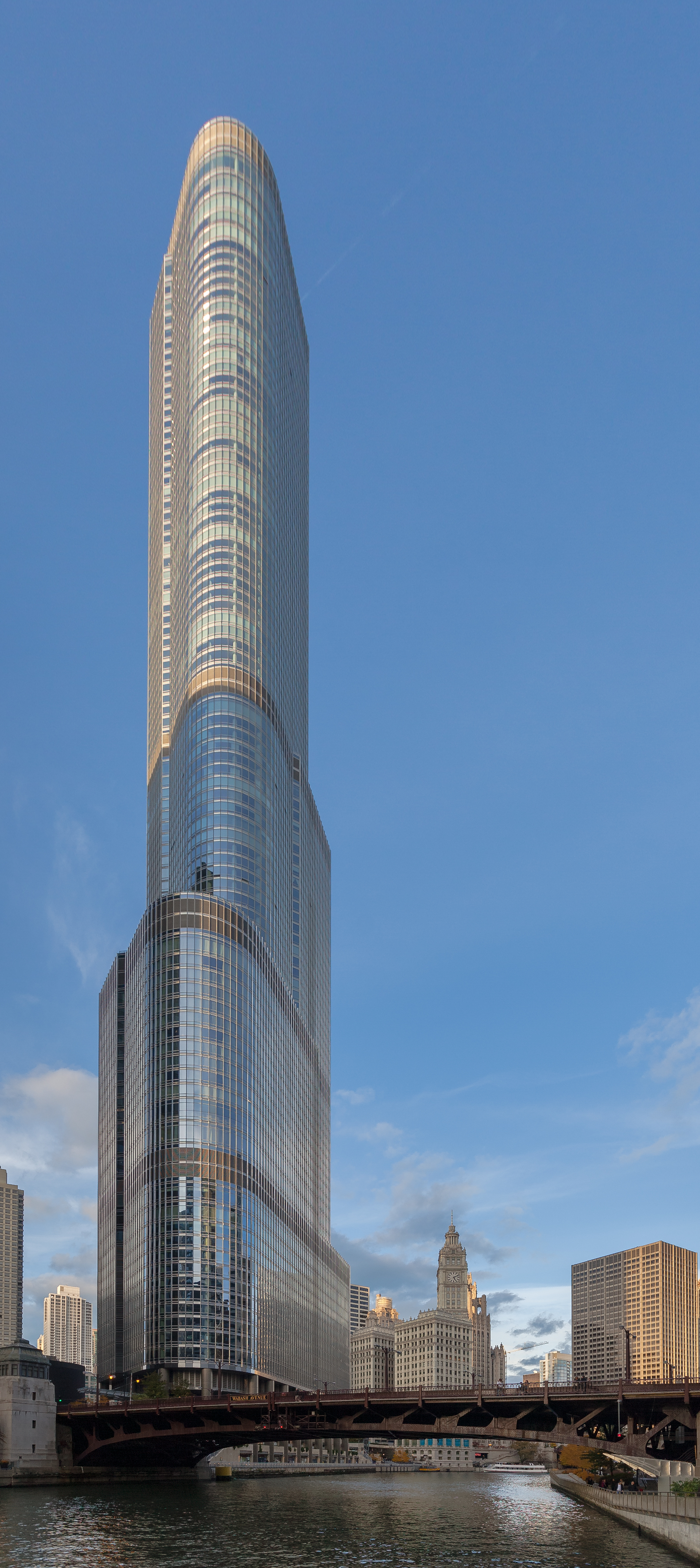 Trump International Hotel and Tower, Chicago, Illinois, USA